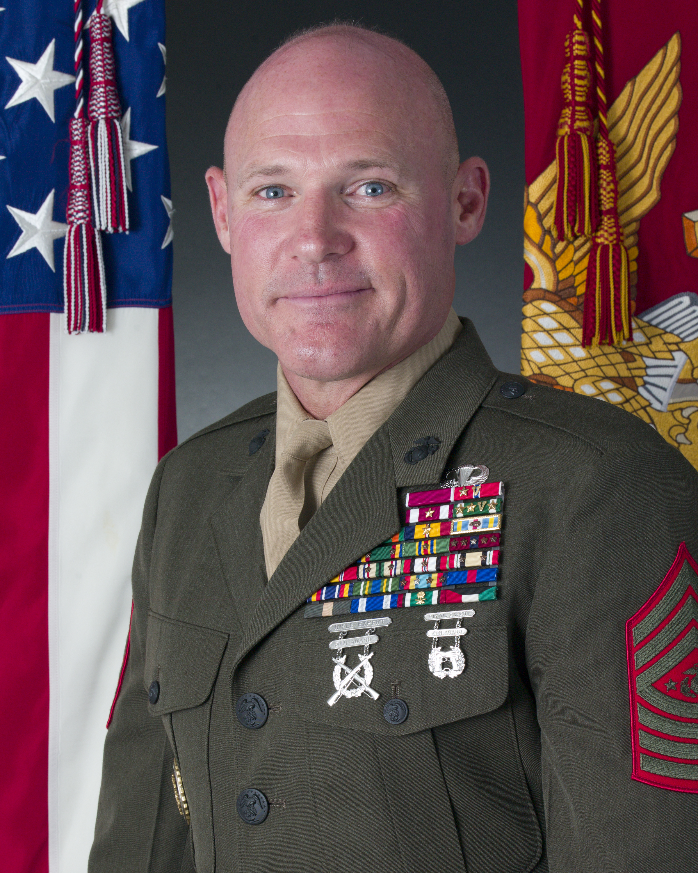 Official Photo of Micheal P. Barrett, the 17th Sergeant Major of the Marine Corps.